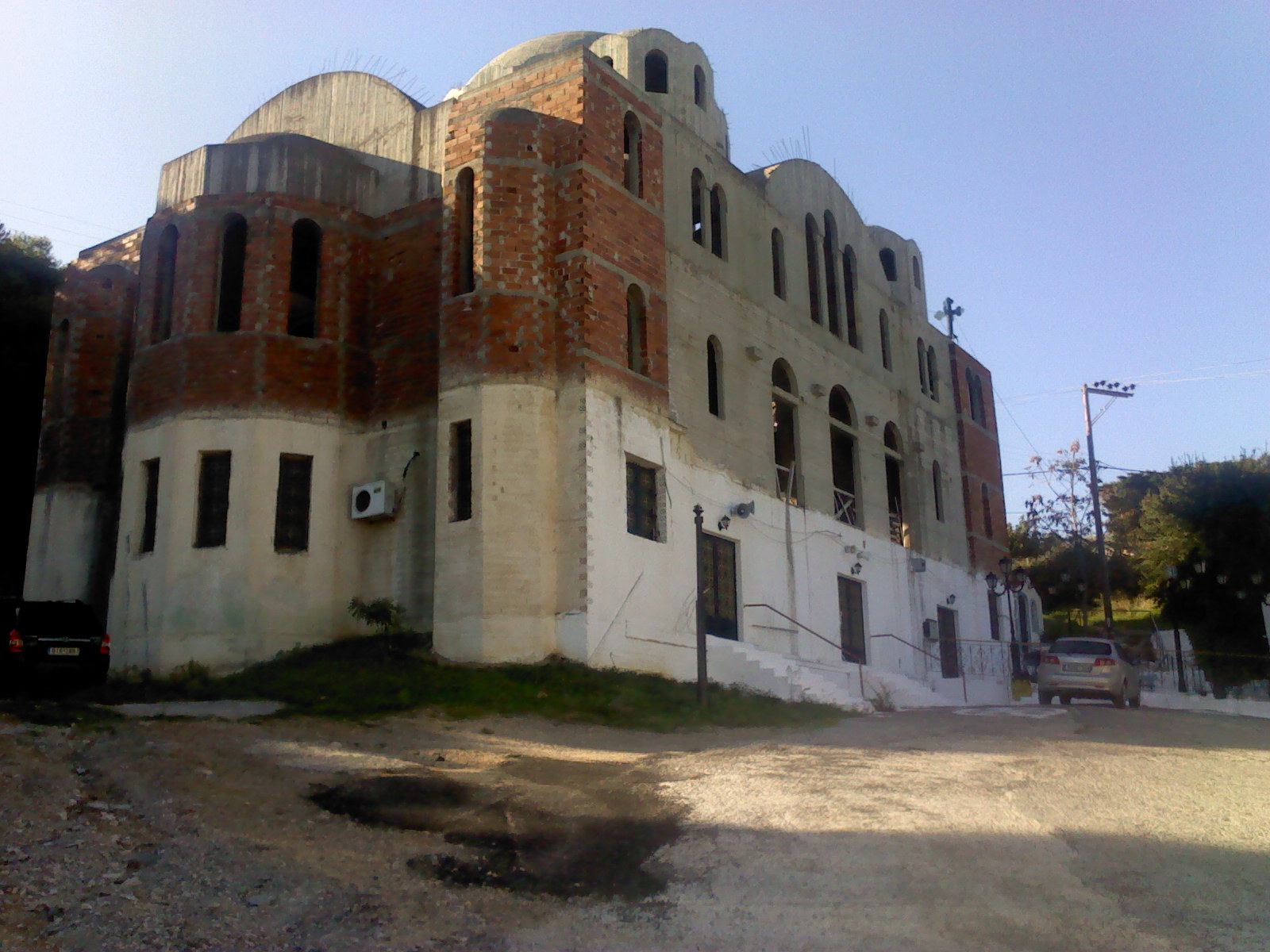 Churche Agioi Apostoloi Kalamos